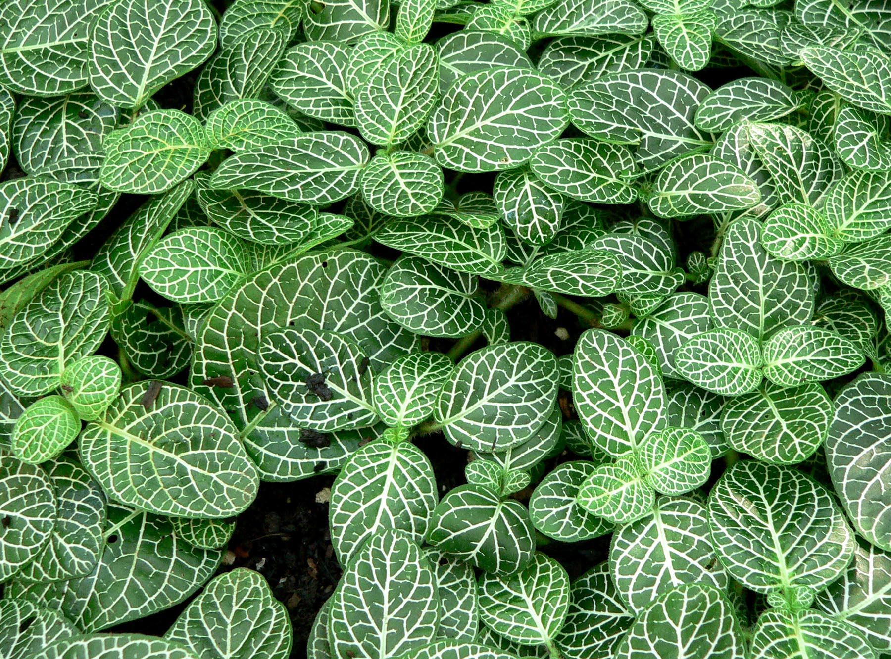 Photo of Fittonia albivenis at Balboa Park